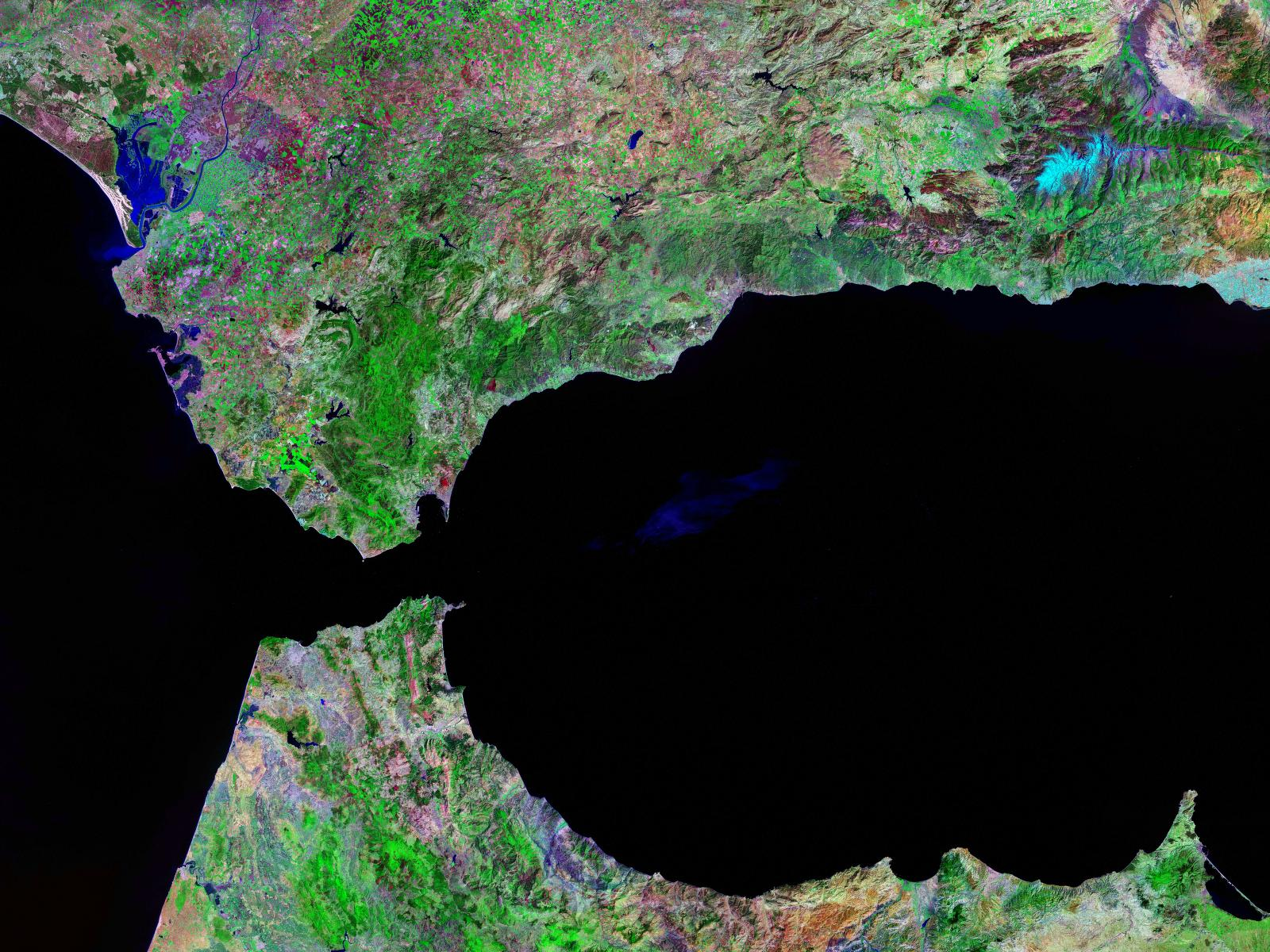 Strait of Gibraltar - image from satelite Landsat.